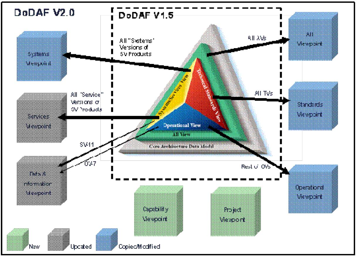 DoD Architecture Framework Version 2.0 and how it relates to v1.5